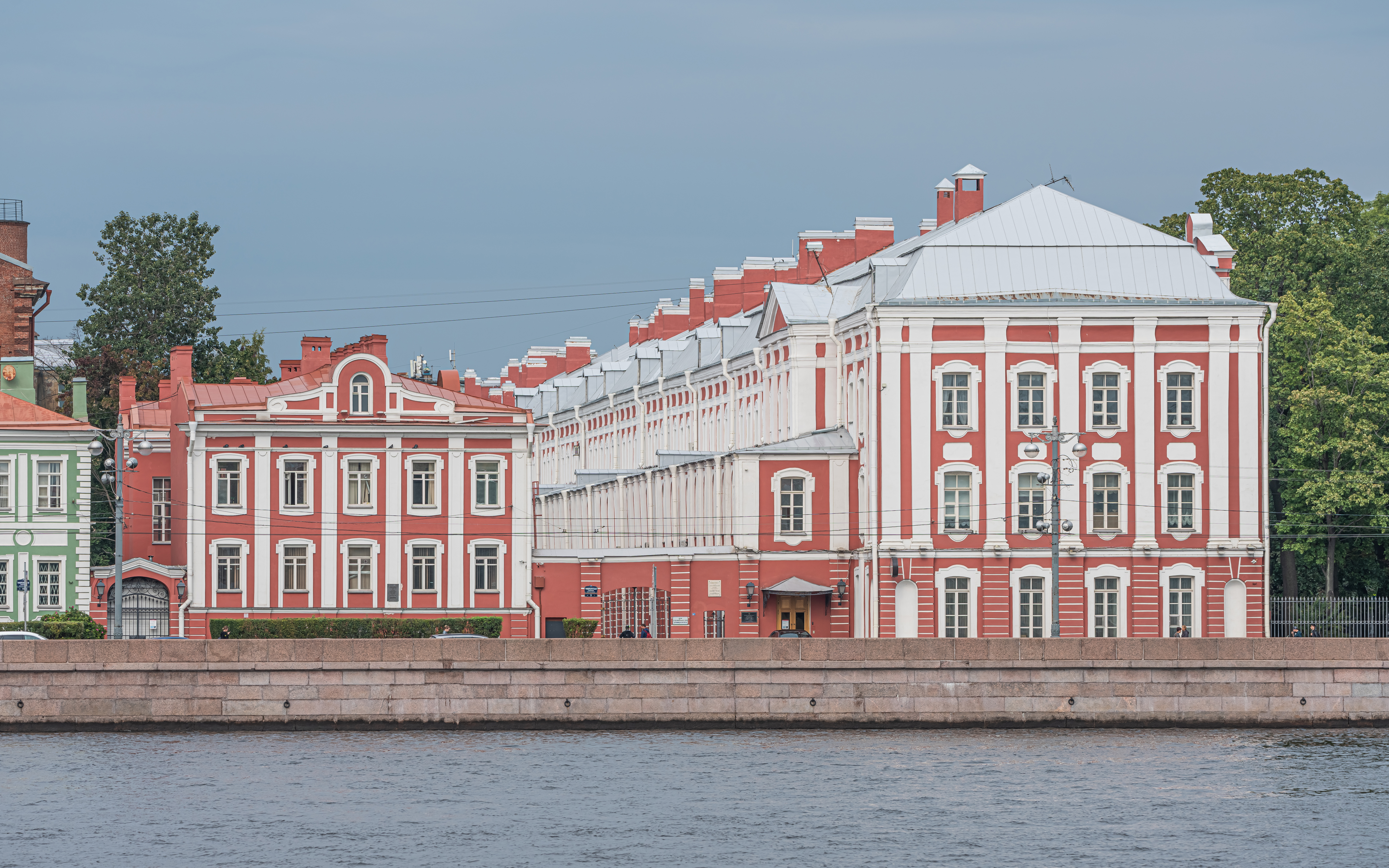 Building of the Twelve Collegiums (Spb State University) on Vasilievsky Island in Saint Petersburg, Russia